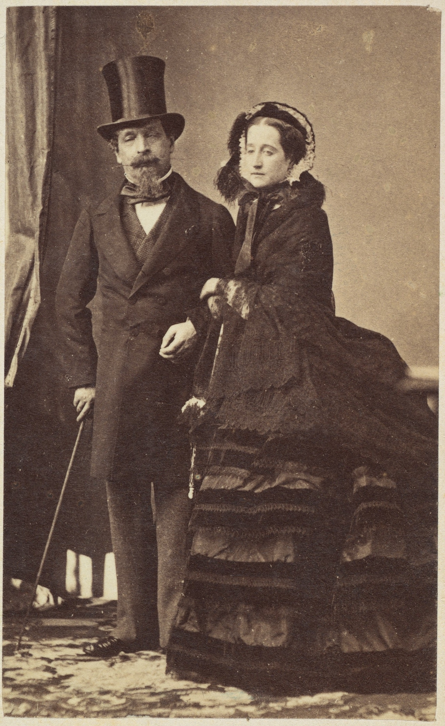 Adolphe Eugène Disderi (1819-1890), French emperor Napoléon III and his wife Eugénie, circa 1865.